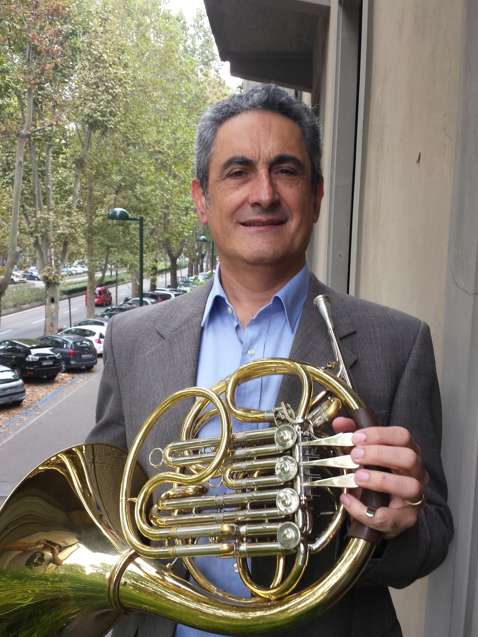 Corrado Maria Saglietti 2014 Horn player and Composer